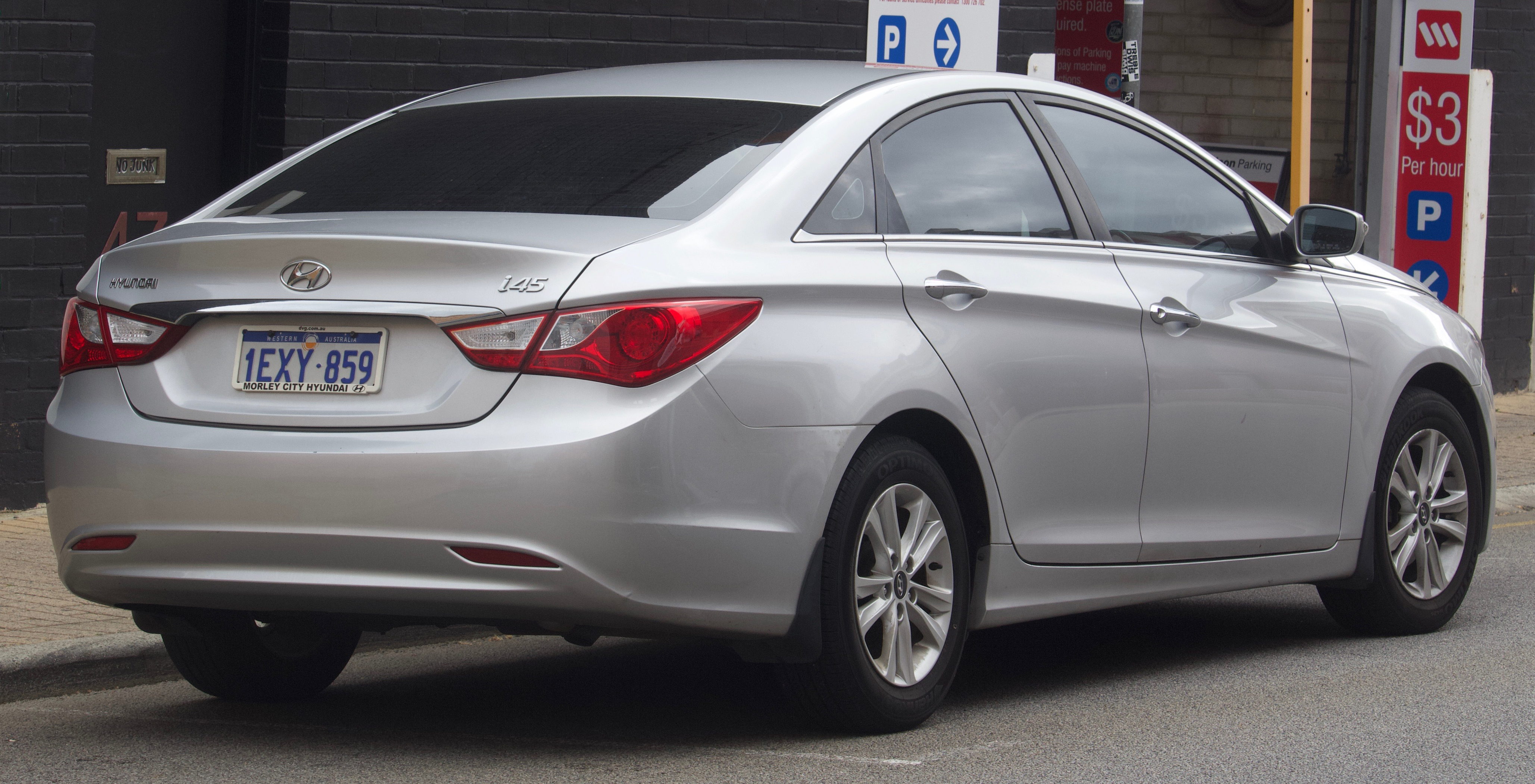 2010-2012 Hyundai i45 (YF) Active sedan. Photographed in Fremantle, Western Australia, Australia.